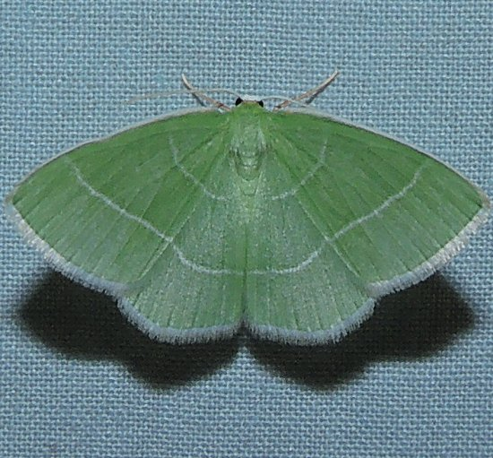 6/6/13 Franklin County Photo and ID thanks to Jack Foreman